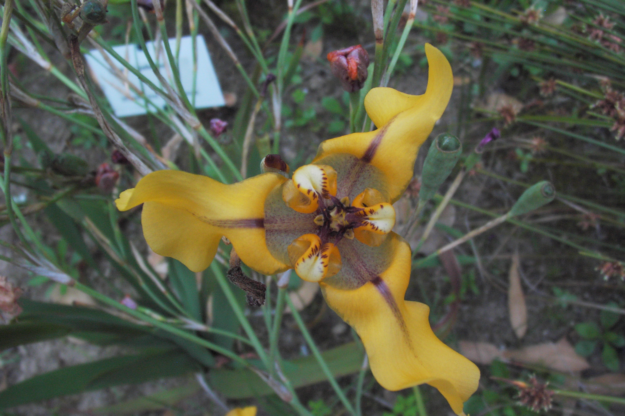 Cypella herbertii in the botanical garden of Roscoff